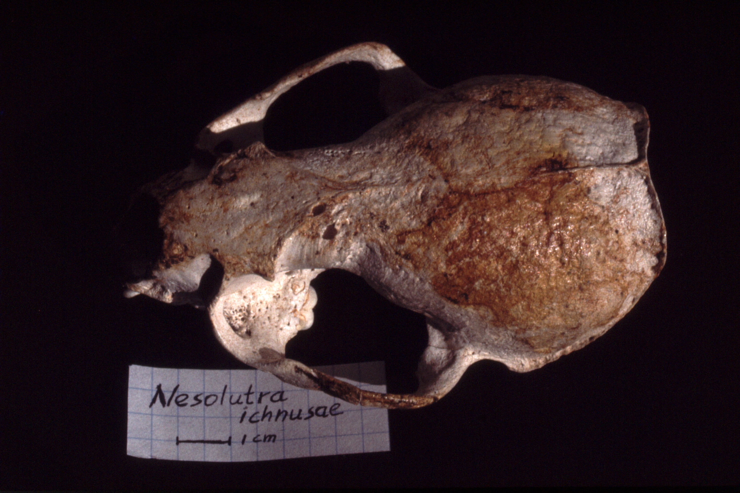 Cranium of Sardolutra ichnusae from Sardinia